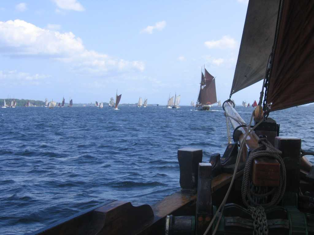 Ships on rumregatta flensburg / germany